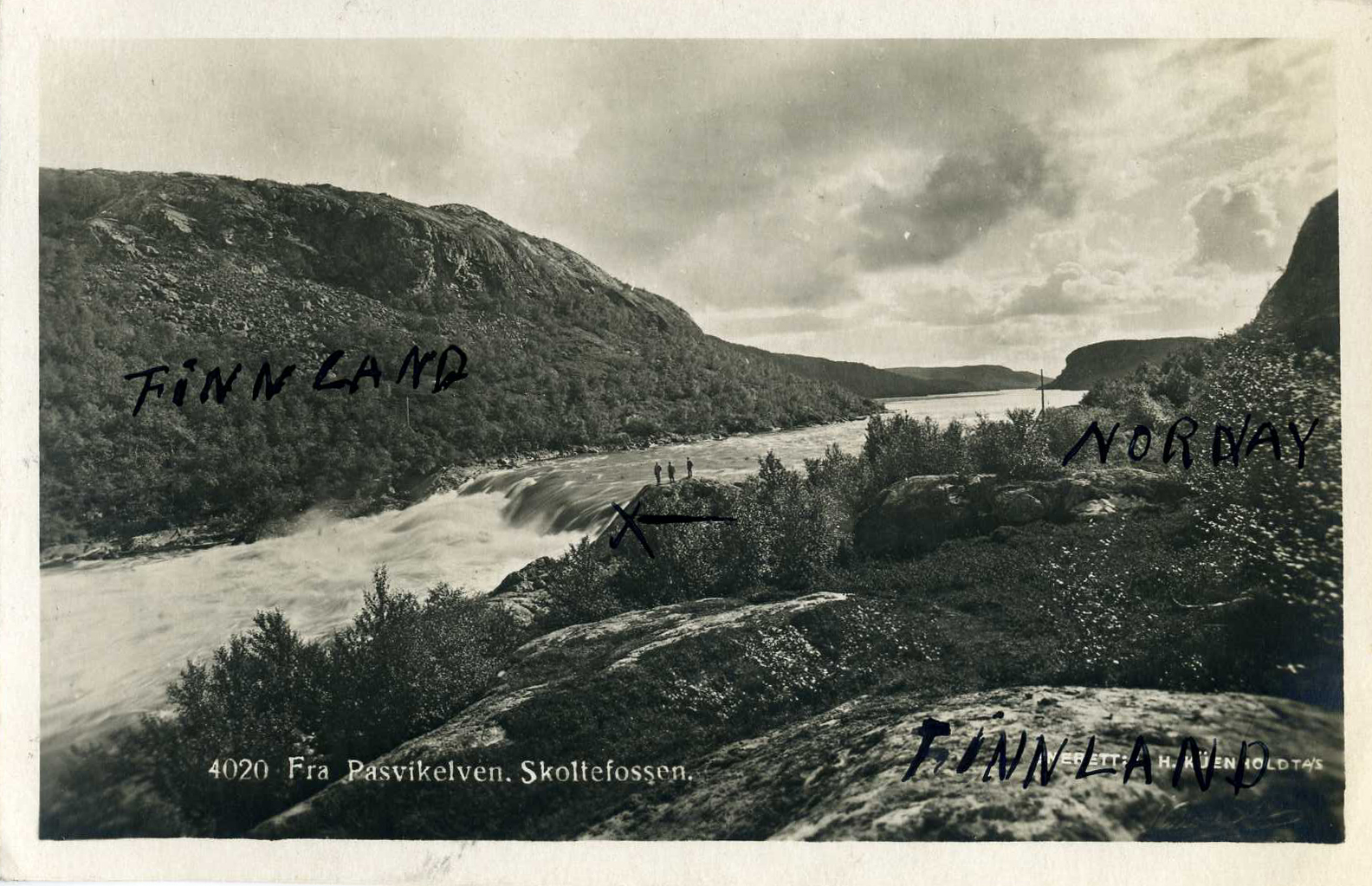 back